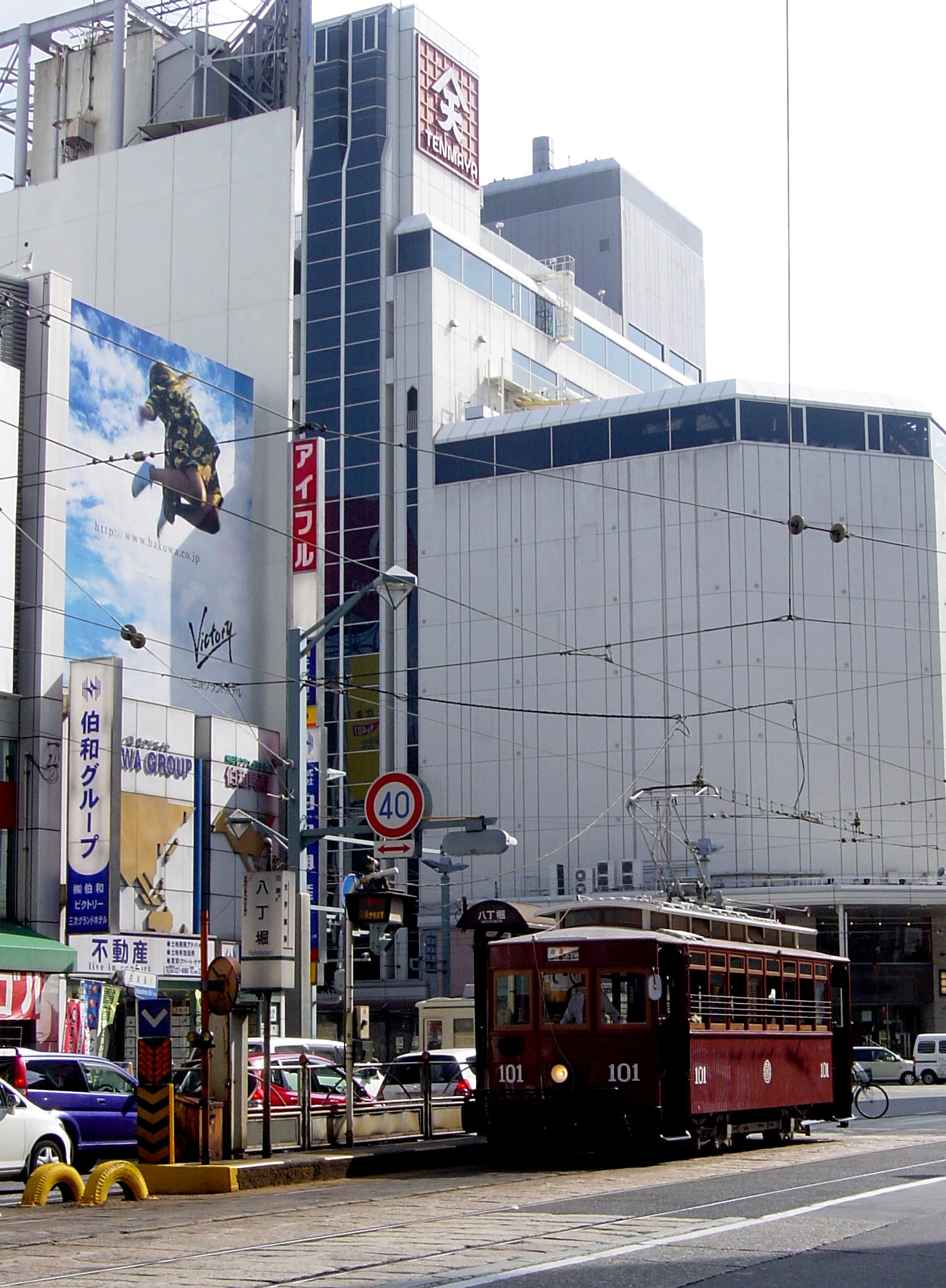 Hiroshima Electric Railway Hatchobori Station